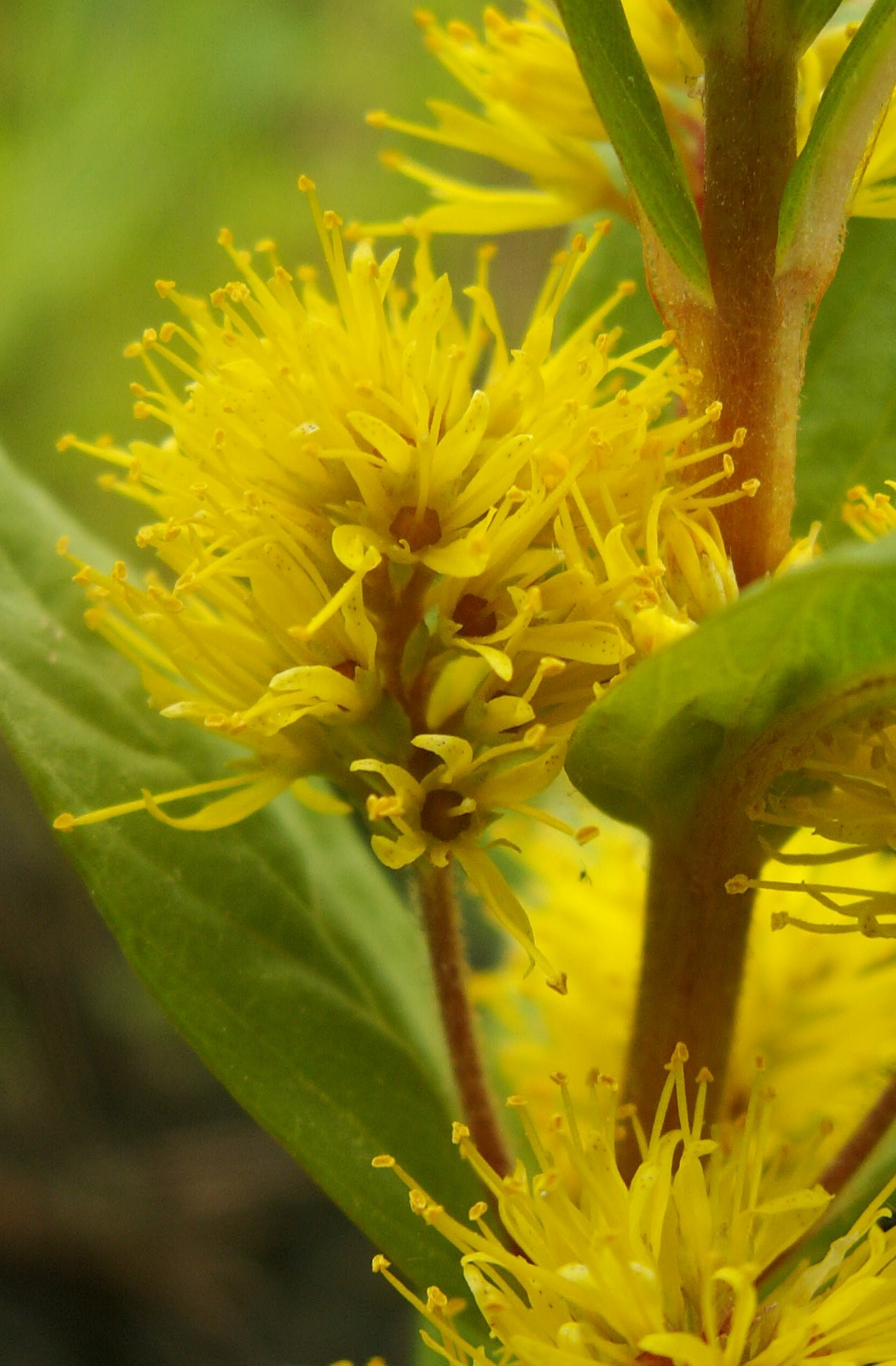 Lysimachia thyrsiflora, inflorescence. Rozwarowo, NW Poland.